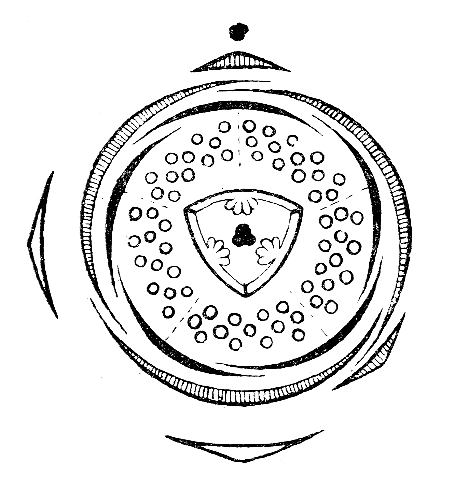 Flower diagram of Helianthemum vulgare